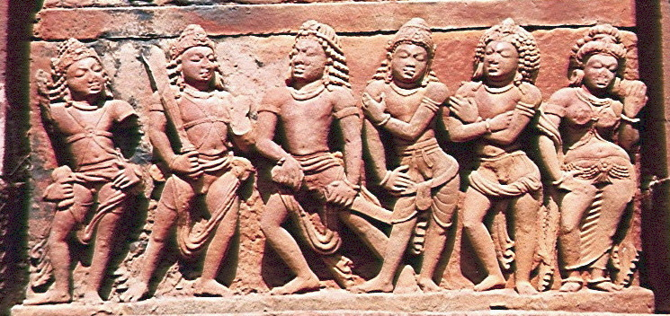 Deogarh. Here you see the five Pandava princes- heroes of the epic Mahabharata - with their shared wife-in-common named Draupadi (although some had their own wives too). Vishnu, incarnated as Krishna , was advisor and their charioteer in battle. The central figure is Yudhishthira ; the two to his left are Bhima and Arjuna . Nakula and Sahadeva , the twins, are to his right. Their wife, at far right, is Draupadi . These heroes are themselves incarnations: Yudhishthira manifests Dharma, the Sacred Order of Life. Bhima represents the Wind God, Vayu. Arjuna is Indra. Nakula and Sahadeva incarnate the twin “Horseman Gods” (The Greek Dioscuri). Draupadi is Indrani , the queen of the gods and wife of Indra- a very old Vedic (Pre-Hindu) god. According to another interpretation, 4 weapons of Vishnu (4 on the right) face the demons Madhu-Kaitabha (left).